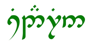 'Sindarin' written in Tengwar Quenya by Bellenion.